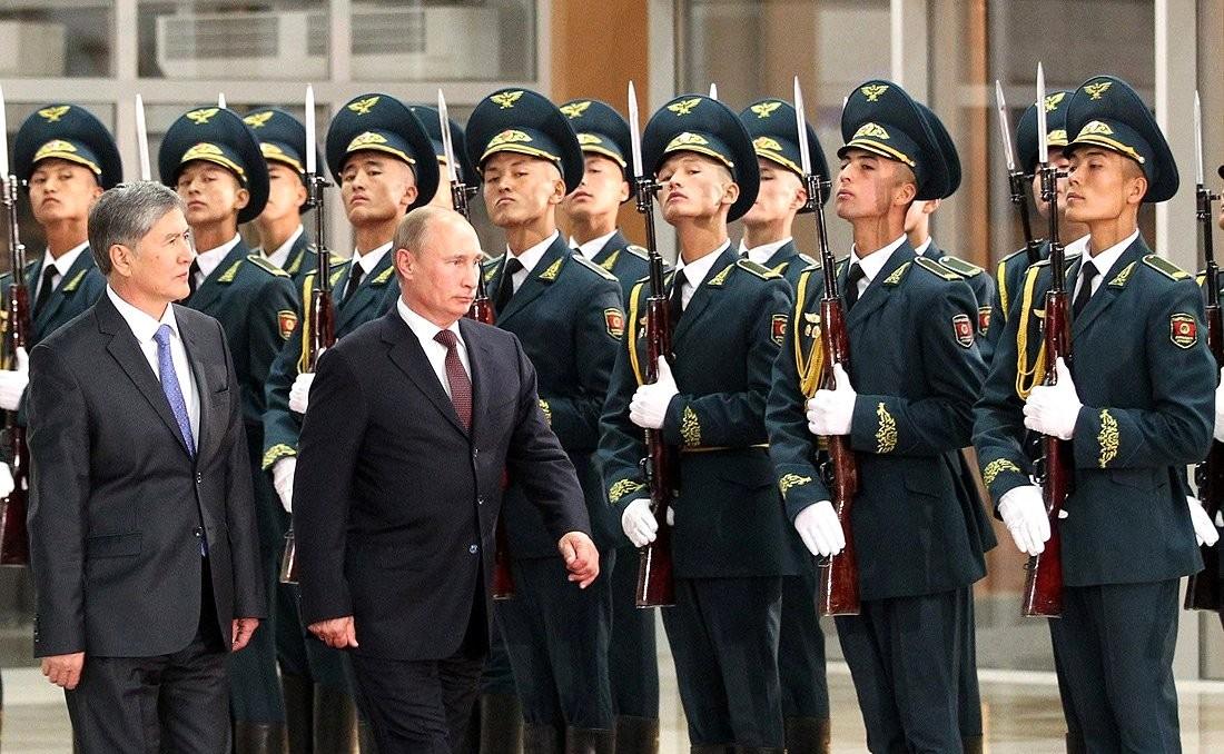 In Bishkek, Vladimir Putin held talks with President of Kyrgyzstan Almazbek Atambayev.